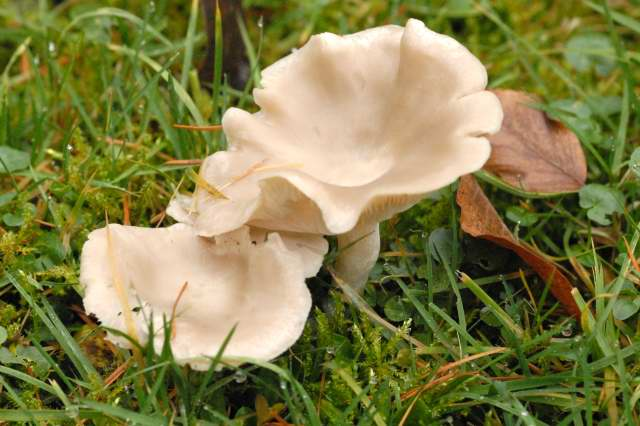 Clitocybe spec. from Commanster, Belgian High Ardennes. The determination of the species shown in this picture has been verified.